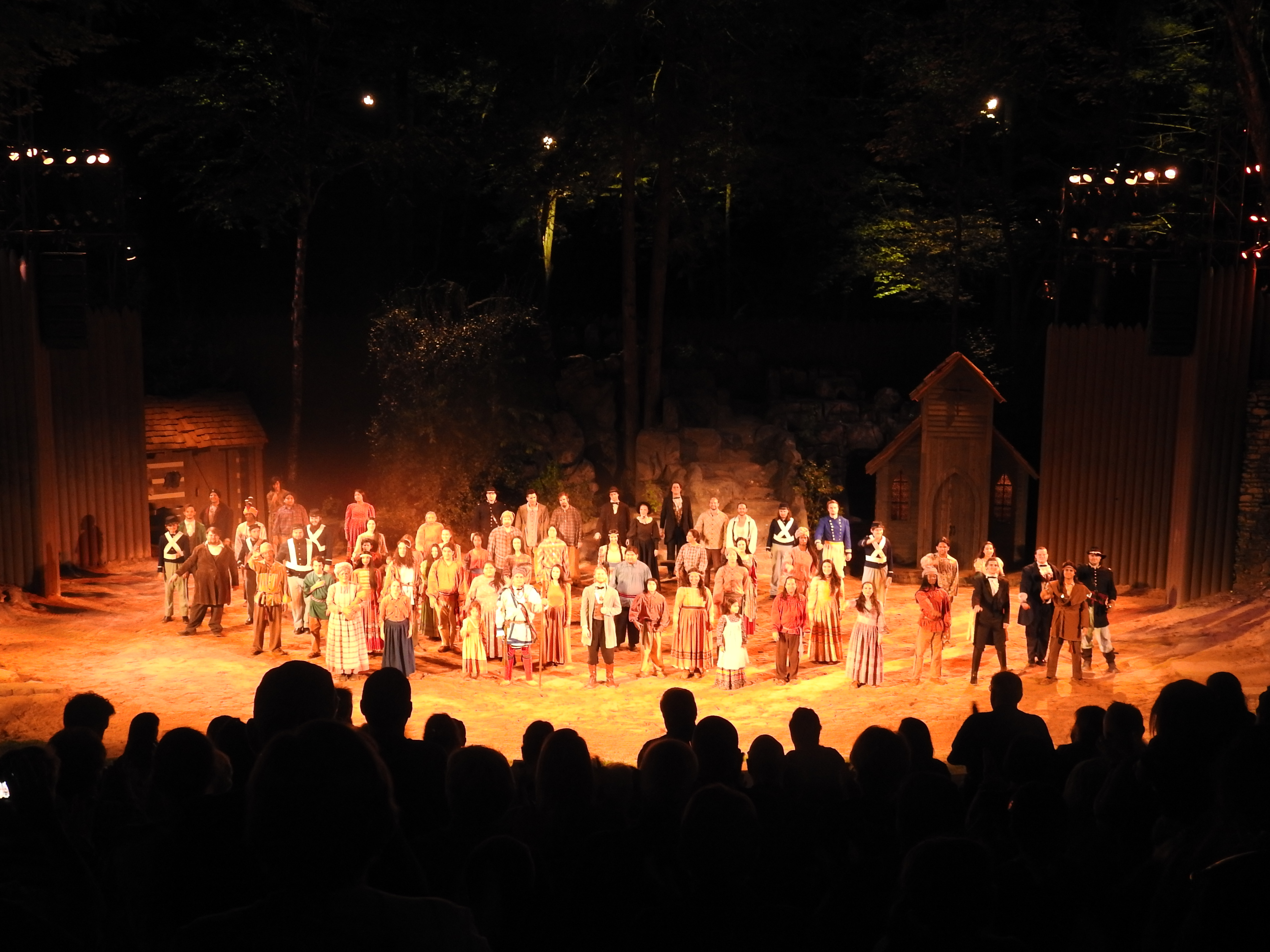 Outdoor Play "Unto these hills" at Mountainside Theater, Cherokee. North Carolina, 2017